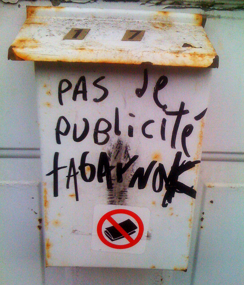 French graffiti in Quebec slang. Says "No advertising mail" followed by a Quebec curse word.